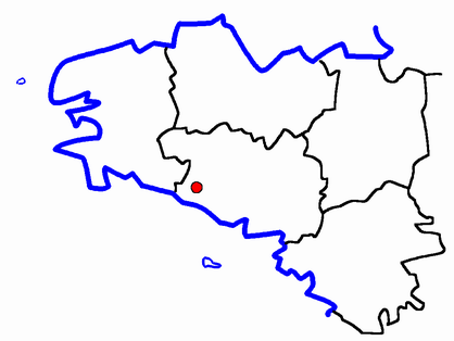 Description: Map for localisazion of cantons of Bretagne region in France Source: made by Hervé Tigier in april 2005 from another large map (published in 1990)